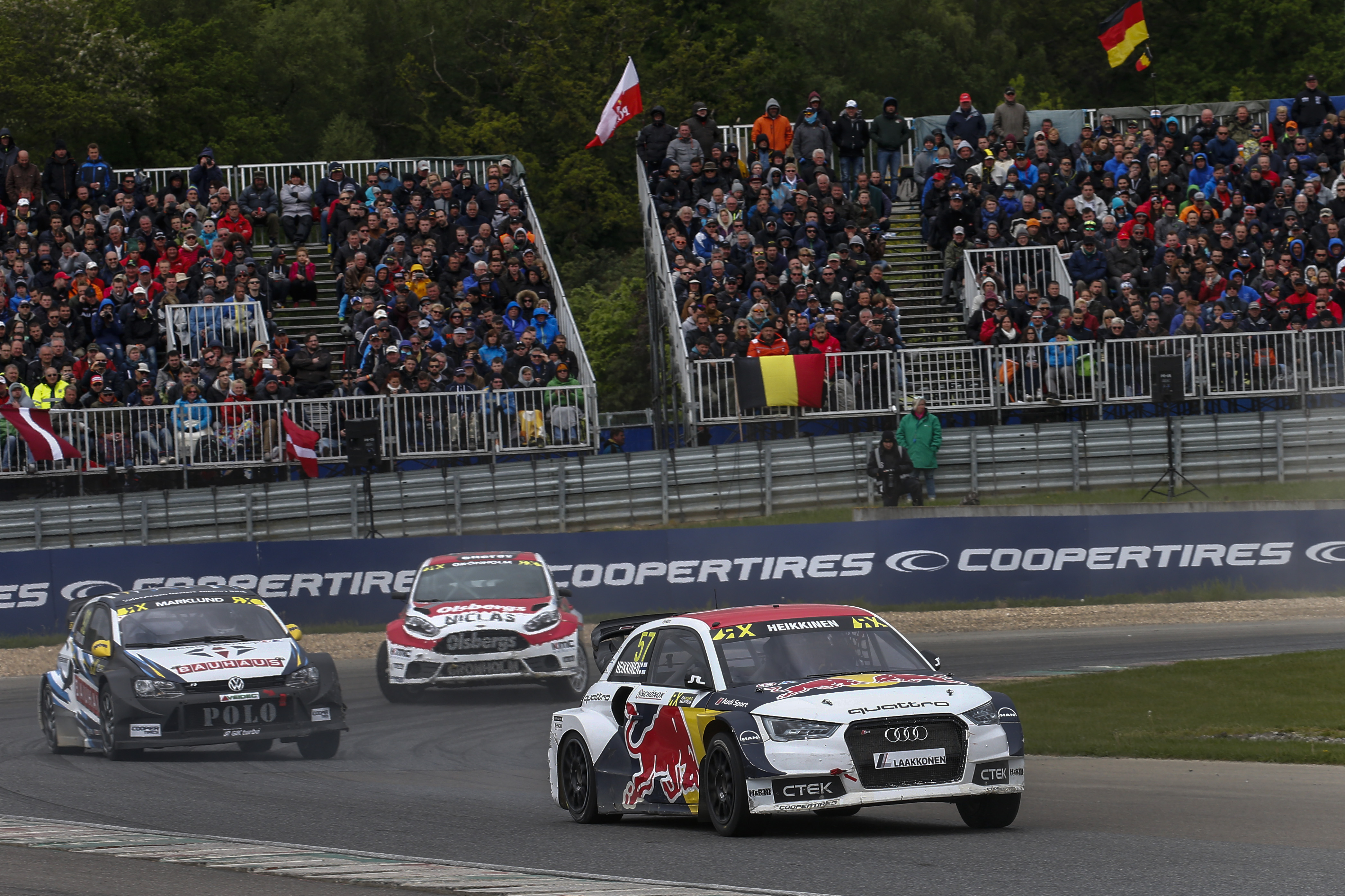 2016 FIA World Rallycross Championship / Round 03, Mettet, Belgium / May 14 - 15 2016 // Worldwide Copyright: Tony Welam/EKS/McKlein